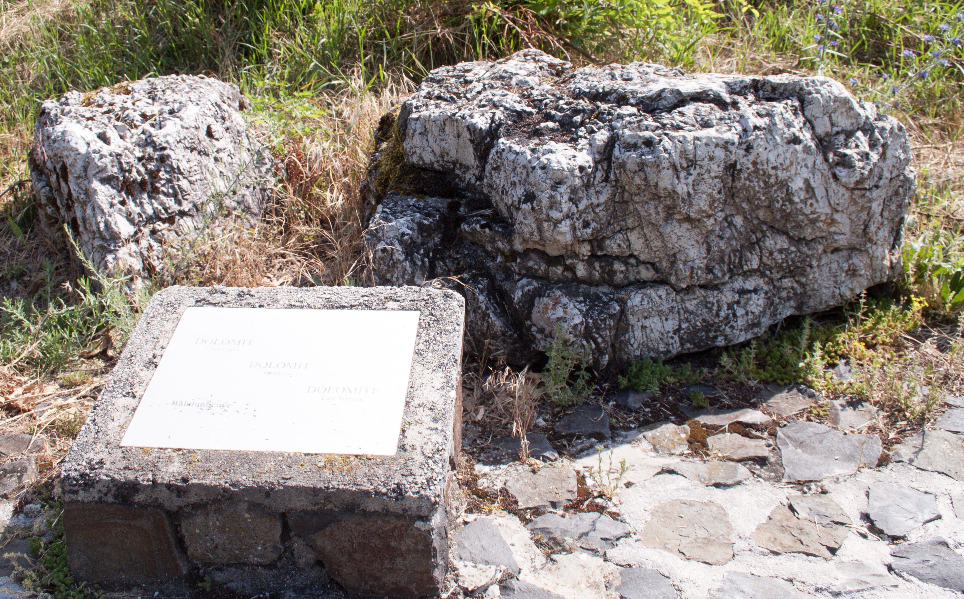 Dolomite, Late Triassic, Balatonhenye